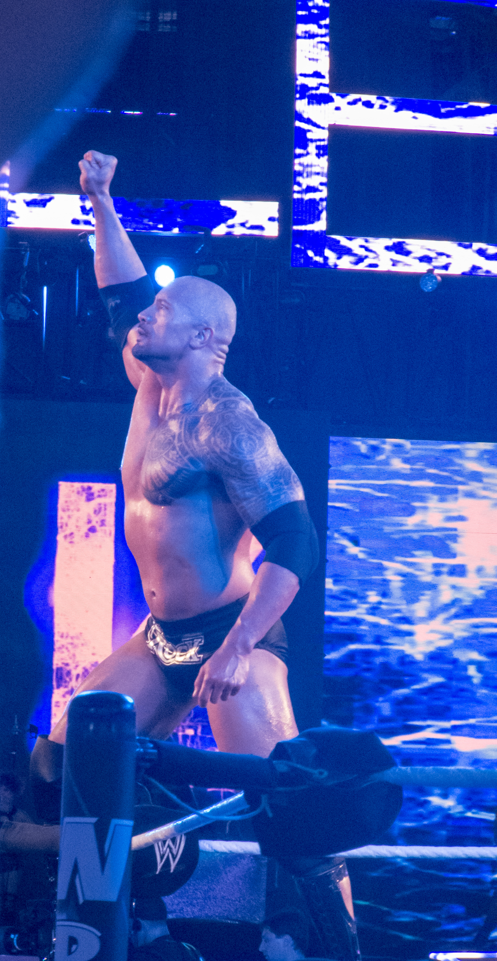 WWE Wrestlemania 28 - The Rock vs John Cena